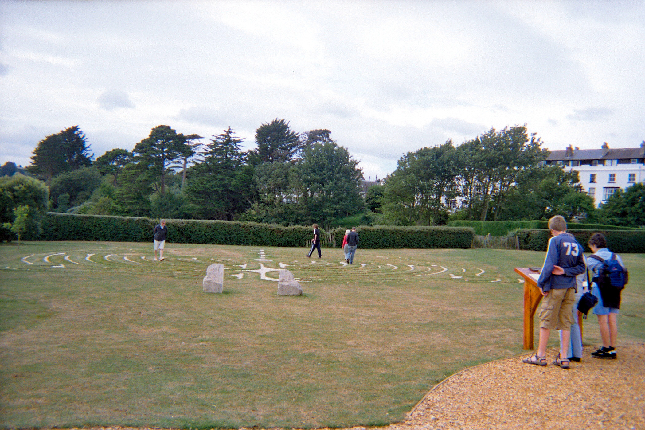 A picture of the Seaton Labyrinth, a turf maze labyrinth in Seaton, Devon. It opened on 24 July 2005.